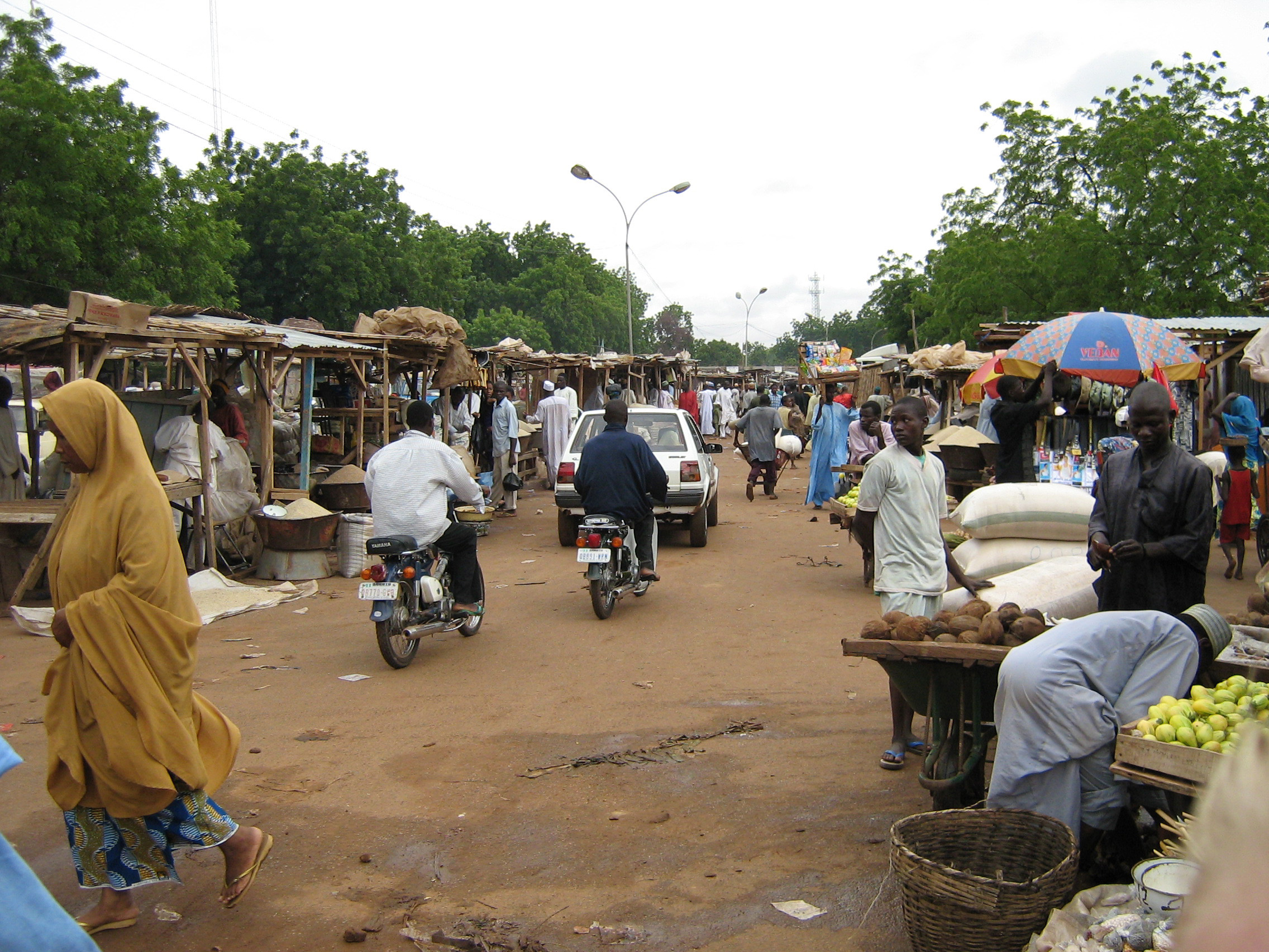 The marketplace in Sokoto, Nigeria. Photo taken in August 2006 by Jens Buurgaard Nielsen